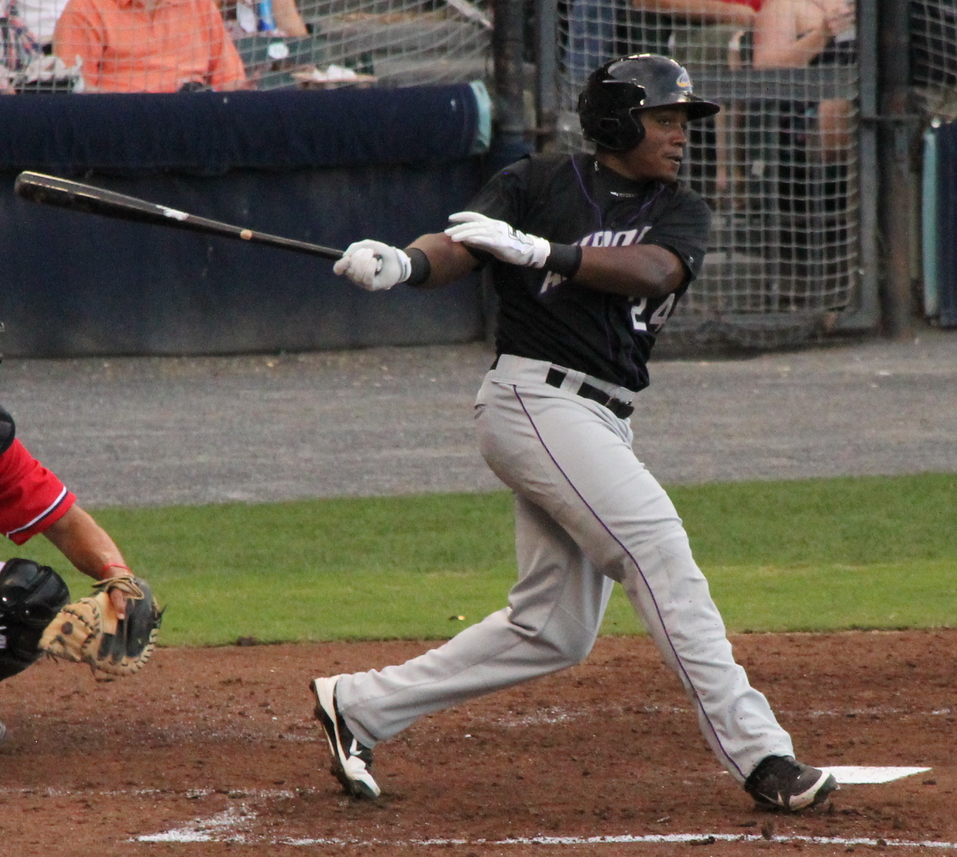 7/5/13 Carlos Moncrief at bat.